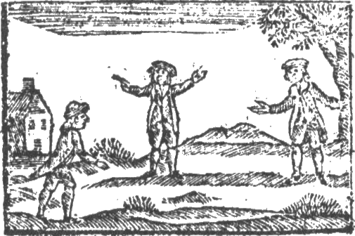 Image from A Little Pretty Pocket-book